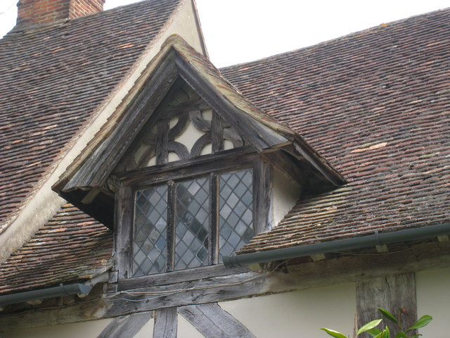 Gabled wall dormer at Stoneacre, Otham, Kent